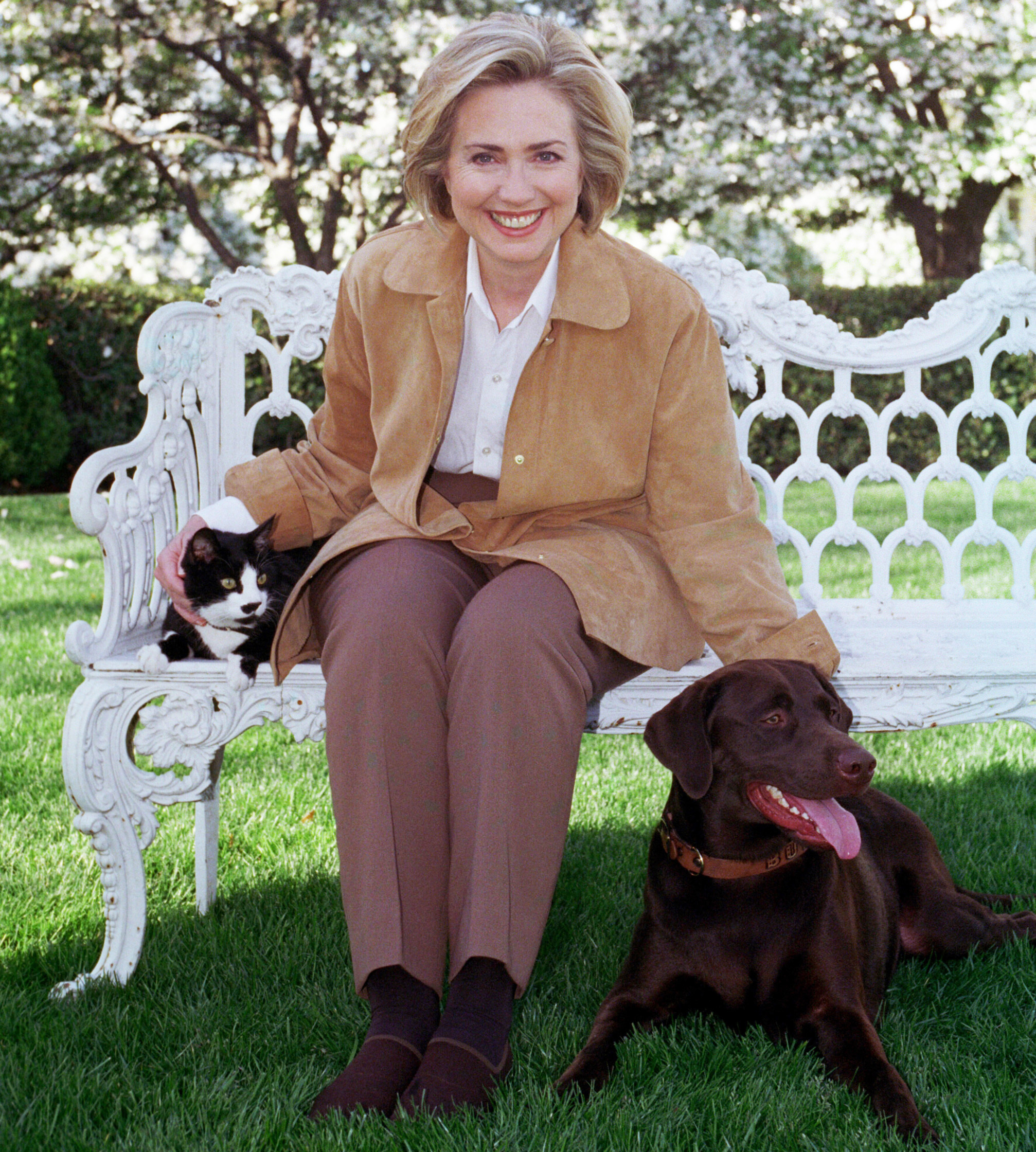 Photograph of First Lady Hillary Rodham Clinton with Socks the Cat and Buddy the Dog.